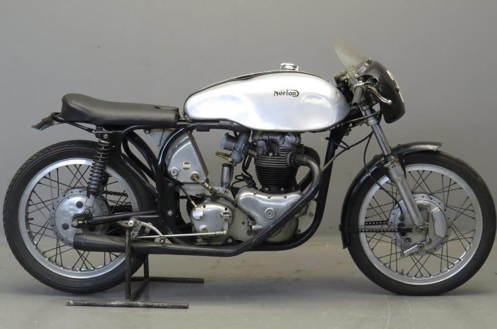 Race prepared Norton Dominator with post-1961 slimline Featherbed frame